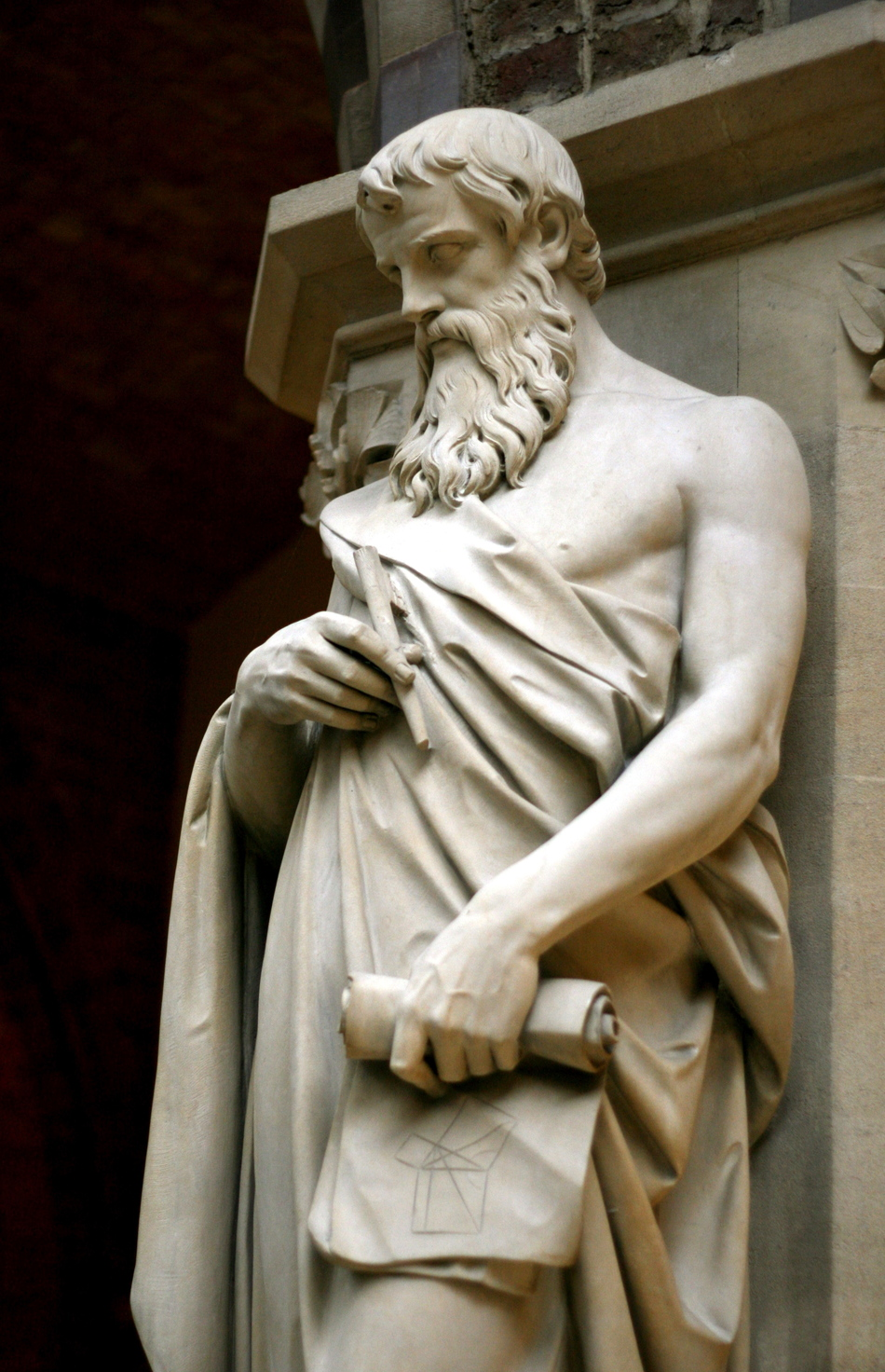 Statue in honor of Euclid in the Oxford University Museum of Natural History